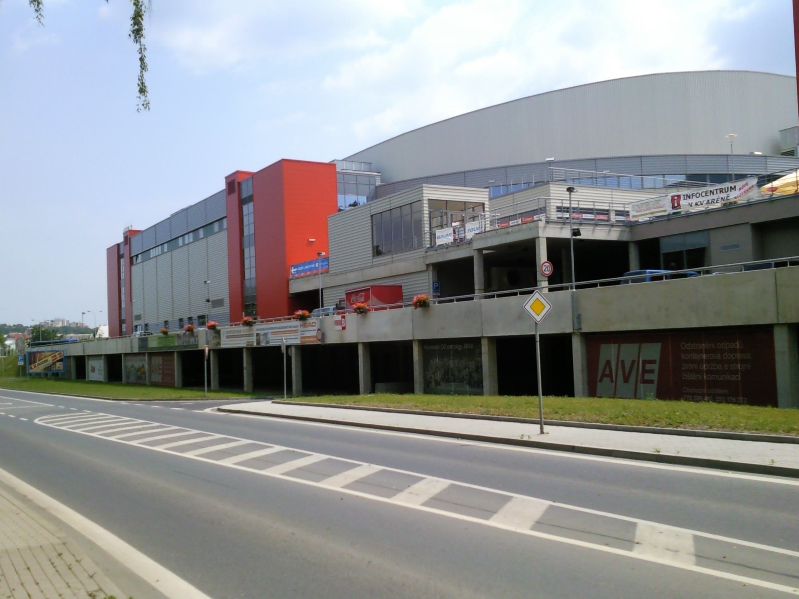 KV Arena